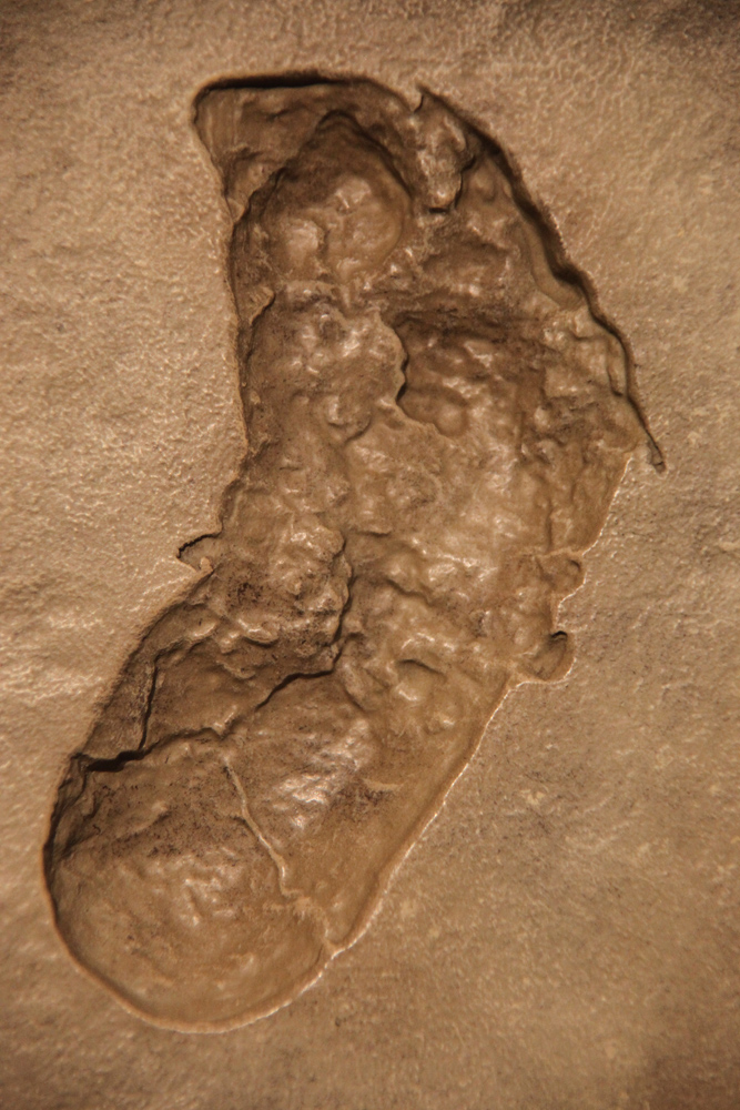 Cast of the "Laetoli footprints" -- the earliest known human footprints in the world, on display in the Hall of Human Origins in the Smithsonian Museum of Natural History in Washington, D.C. These footprints are those of Australopithecus afarensis. The entire footprint trail is 88 feet long and includes impressions left by two early humans. They were made 3.6 million years ago in Laetoli, Tanzania, when A. afarensis walked through wet volcanic ash. Paleontologist Mary Leakey found them in 1976, but they were not identified until Paul Abell did so in 1978. There are 70 footprints in total. Australopithecus afarensis is an extinct human ancestor that lived between 3.9 to 2.9 million years ago. It is more closely related to human beings that Australopithecus africanus, which also lived at about the same time. Australopithecus afarensis was discovered in the Afar region of Ethiopia (hence the name "afarensis") in November 1973. The genus name, "Australopithecus", comes from the Latin word australis (or "southern") and the Greek word pithekos ("ape"). The most famous find is a partial skeleton discovered on November 24, 1974. It was named named Lucy because the scientists who found it repeatedly played the song "Lucy in the Sky with Diamonds" in celebration.